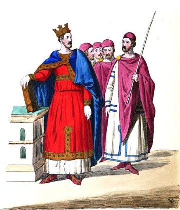 Baldwin VI of Flanders